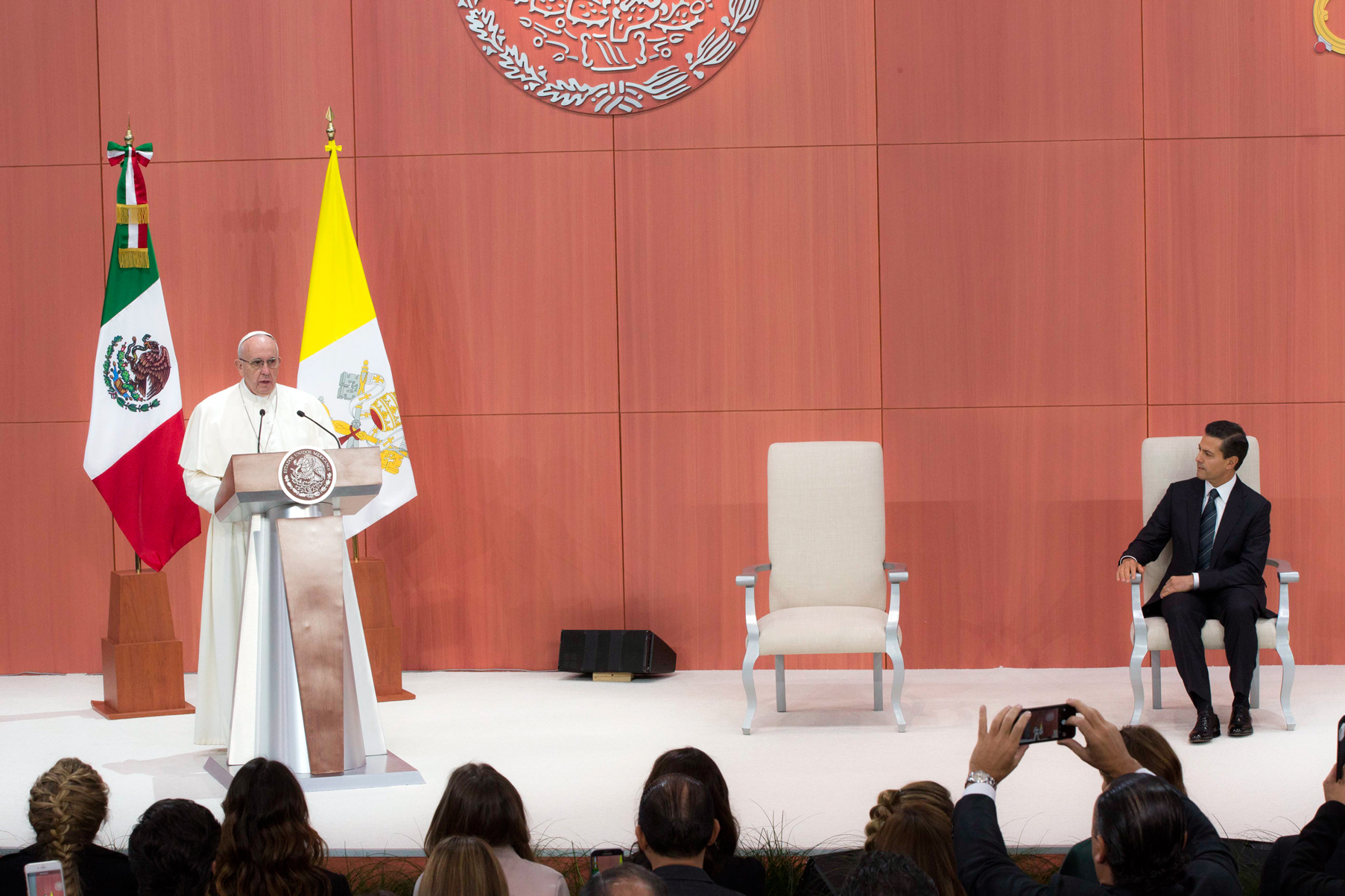 Reconocemos en el Papa Francisco a un líder sensible y visionario, que está acercando una institución milenaria, a las nuevas generaciones. 13 de Febrero del 2016